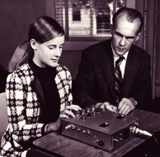 Parapsychologist Helmut Schmidt testing a subject in a random number generator experiment.